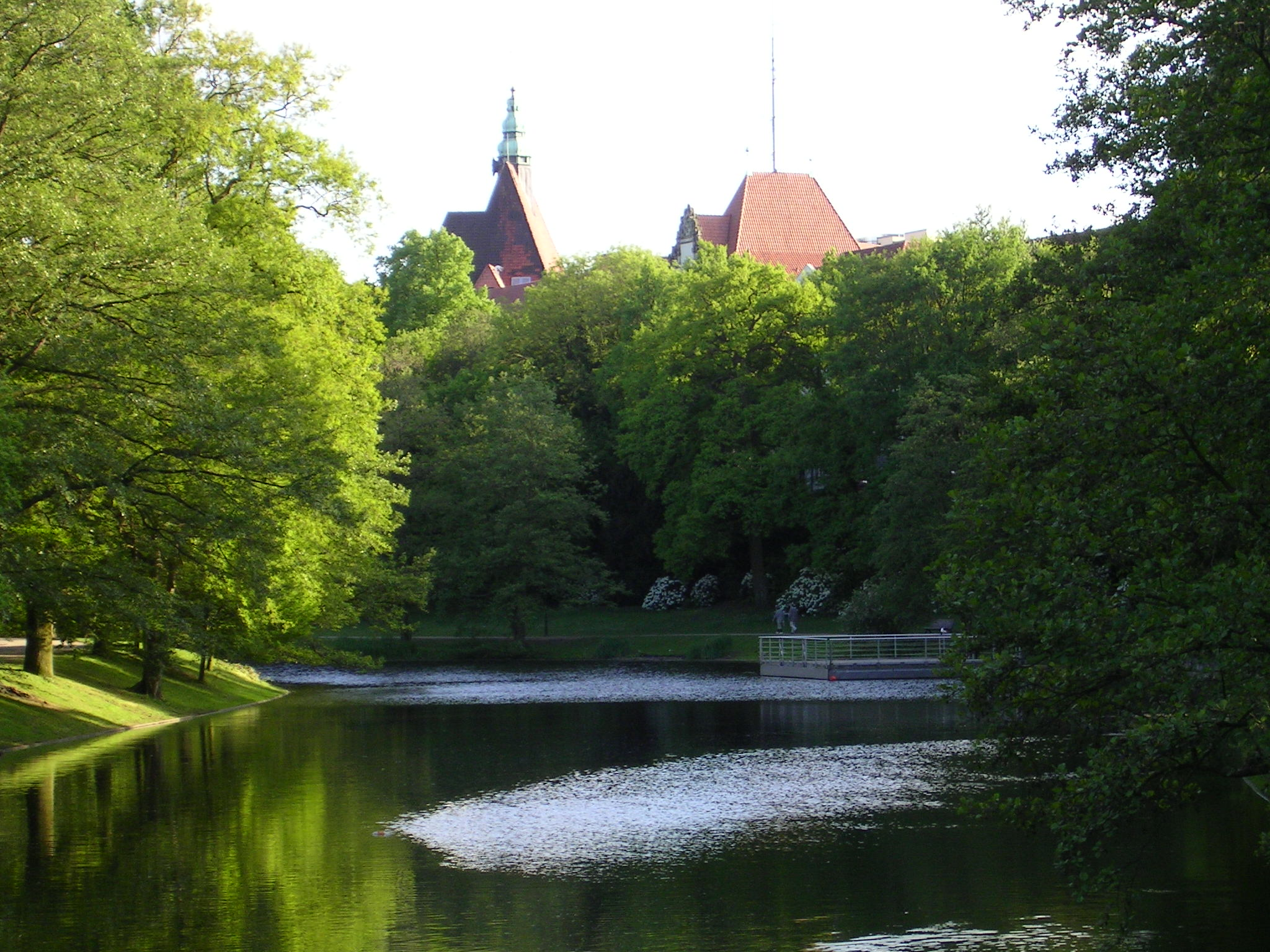 53°04′37.27″N 8°48′52.18″E / 53.0770194°N 8.8144944°E The Zigzag trench around Bremen city Bremen City in Germany like many others is surrounded by a water trench. This trench is almost the same is size as the same original hundreds of years a go.